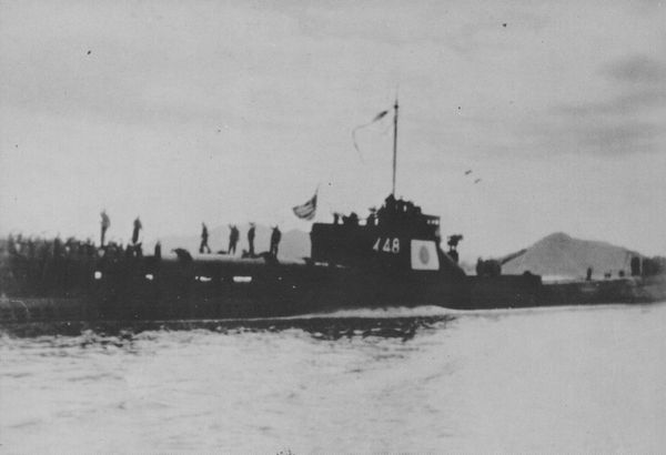 HIJMS I-48